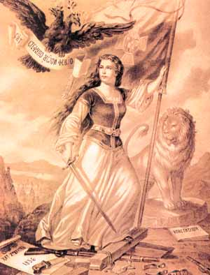 A lithograph by Georgi Danchov - Zografina, "Free Bulgaria"